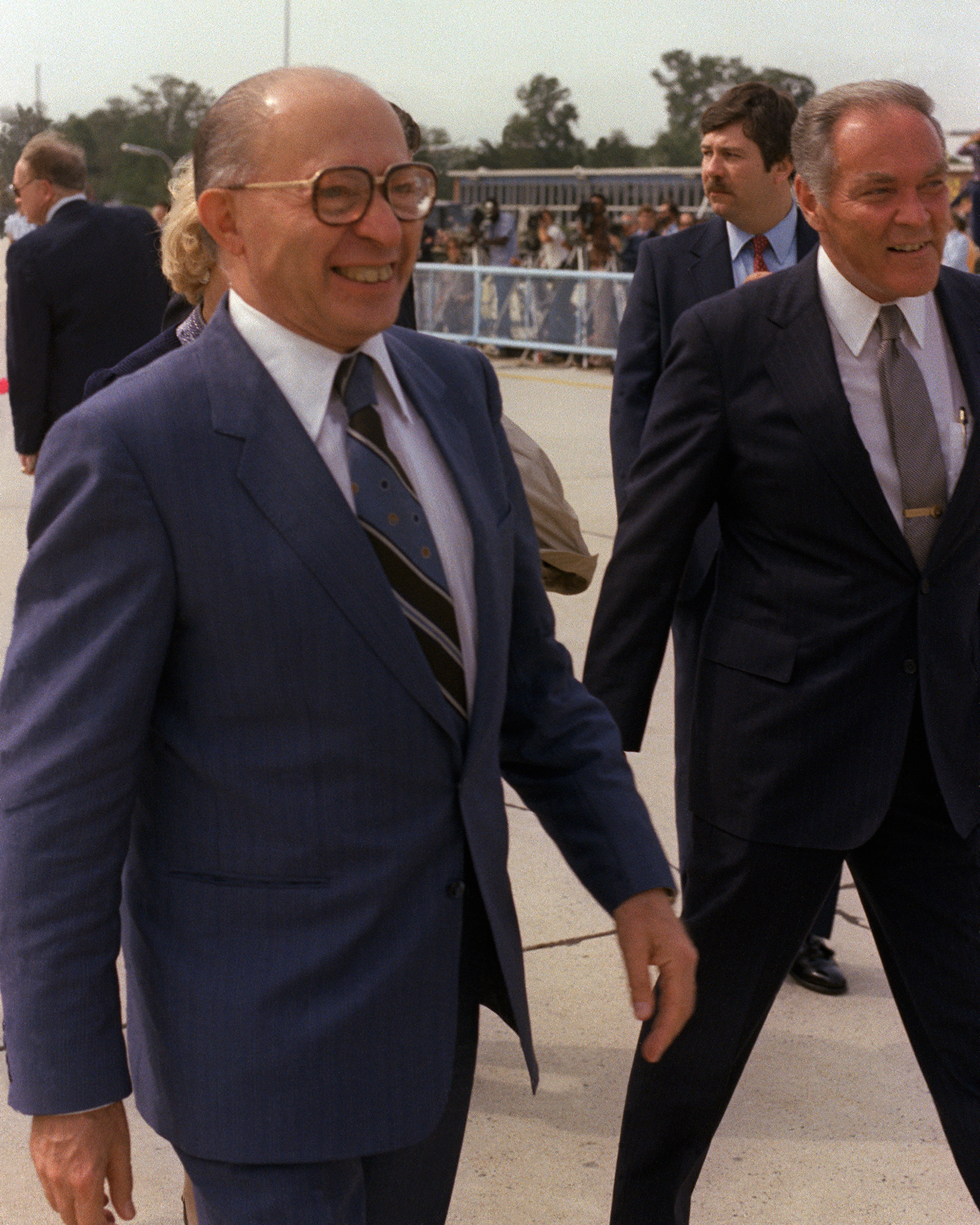 Prime Minister Menachem Begin Arrives in Washington from Israel by FIRANECK, 1981 (DOD DF-SC-83-01330)